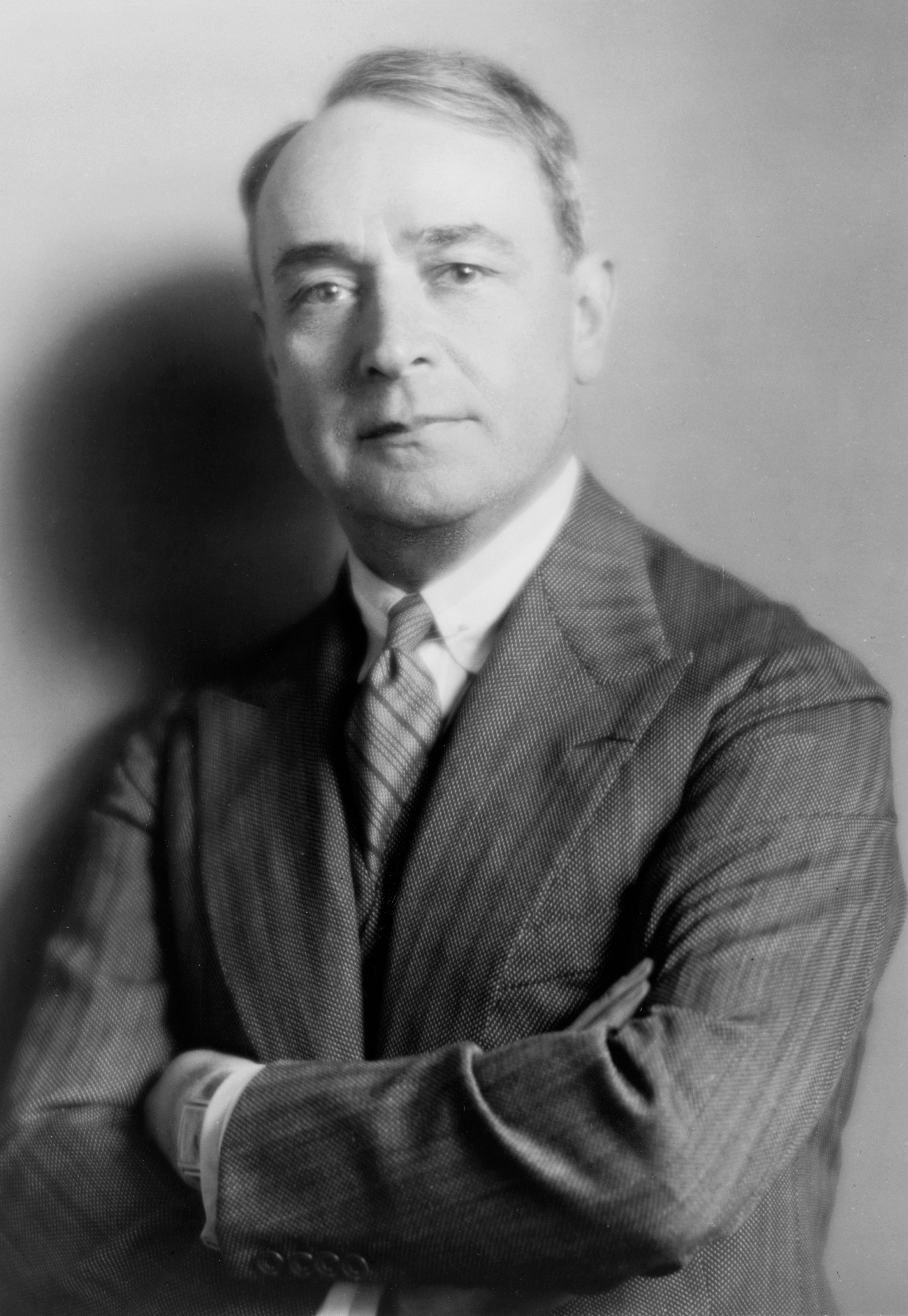 Portrait of Serge Koussevitzky (Russian: Сергей Александрович Кусевицкий), from the Library of Congress's George Grantham Bain Collection